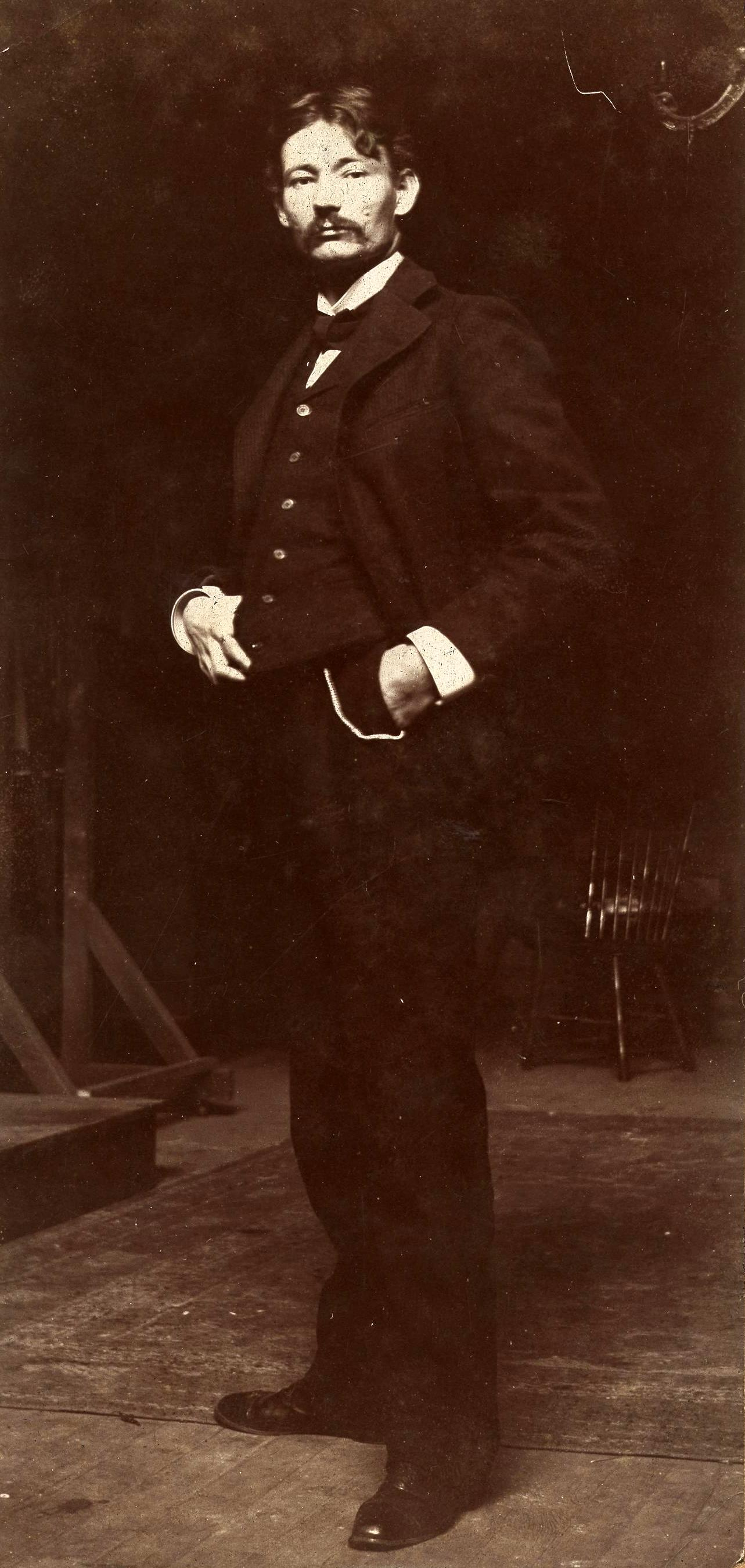 Full length portrait of Henri with his hand in his pocket.